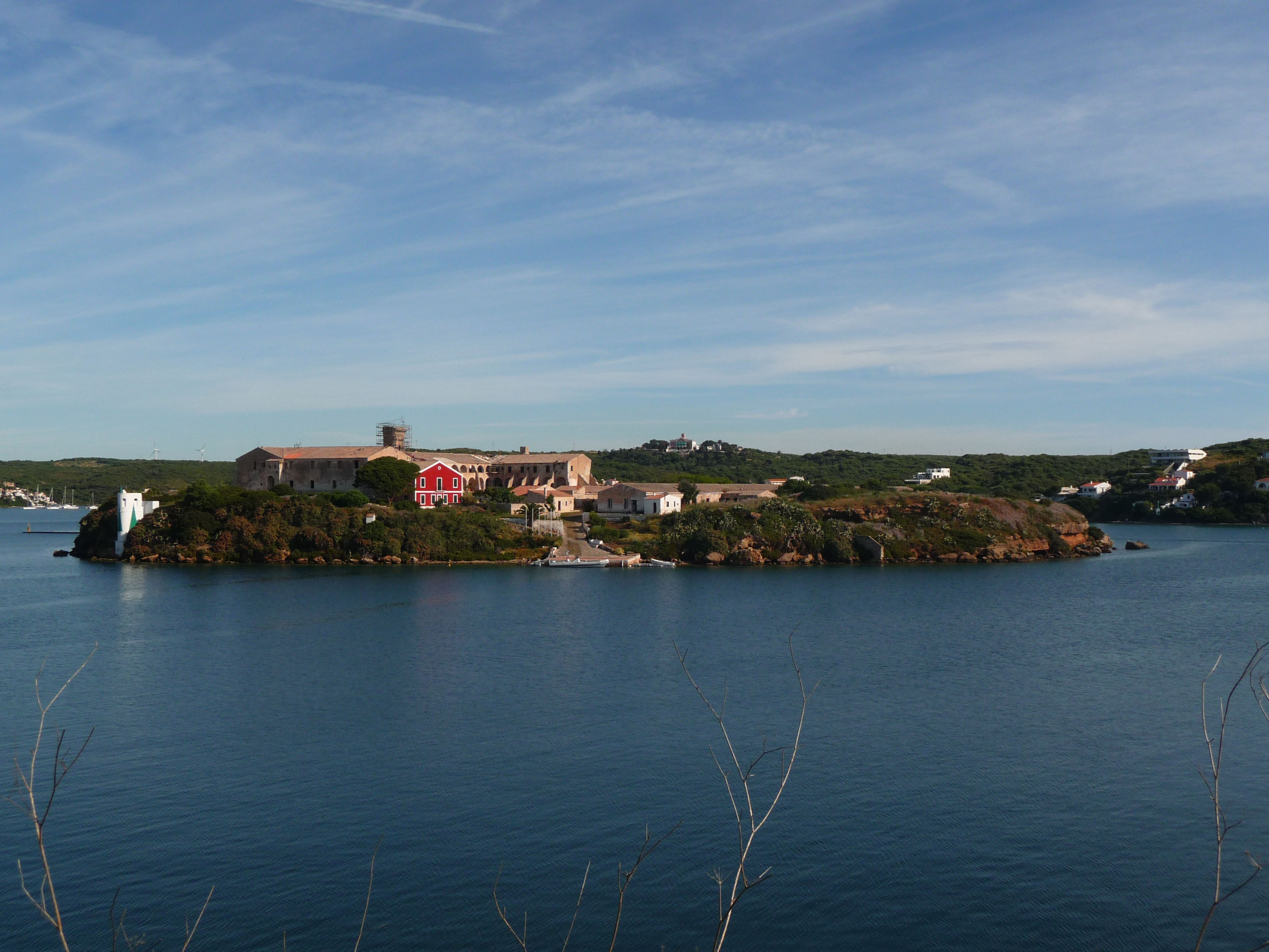 View from Menorca of Isla del Rey.